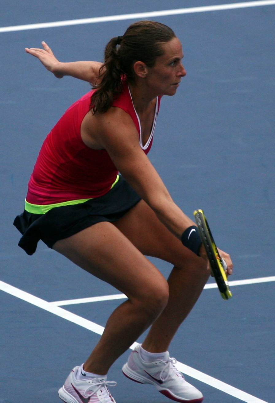 Roberta Vinci at 2012 US Open Wednesday, Sept. 5, 2012